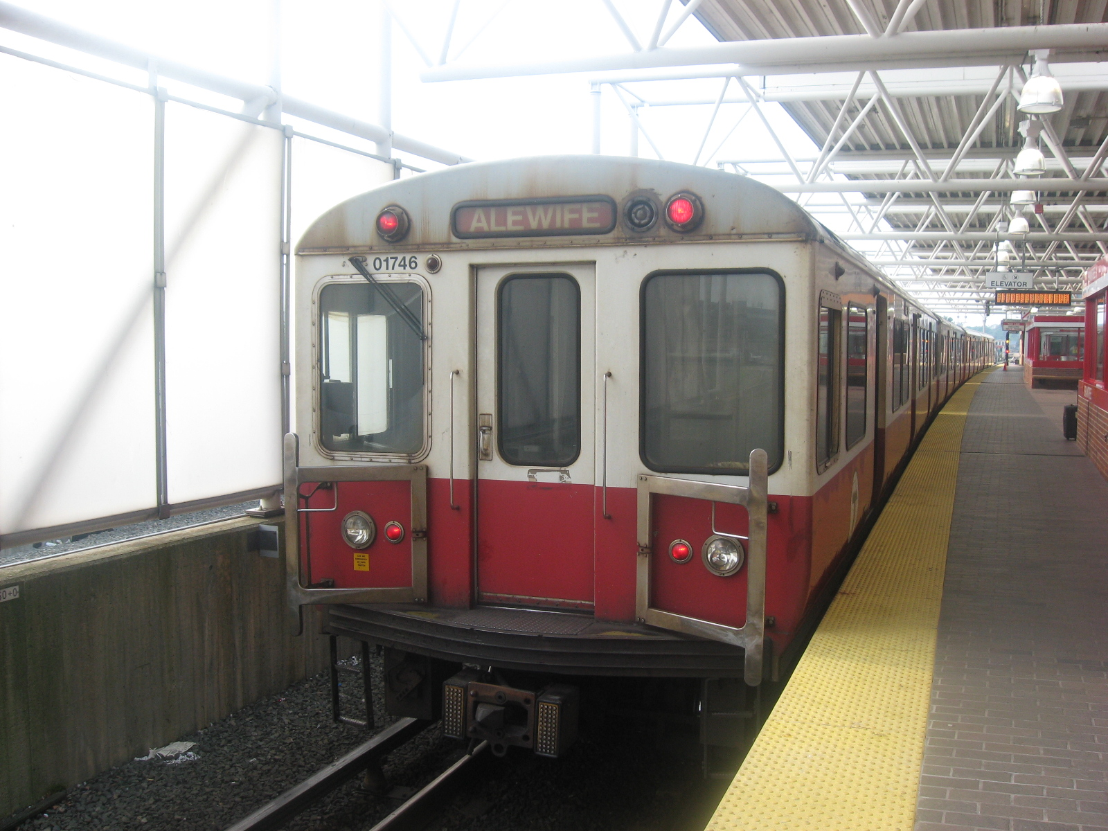 UTDC/Bombardier 1700 series Red Line stock at Braintree station